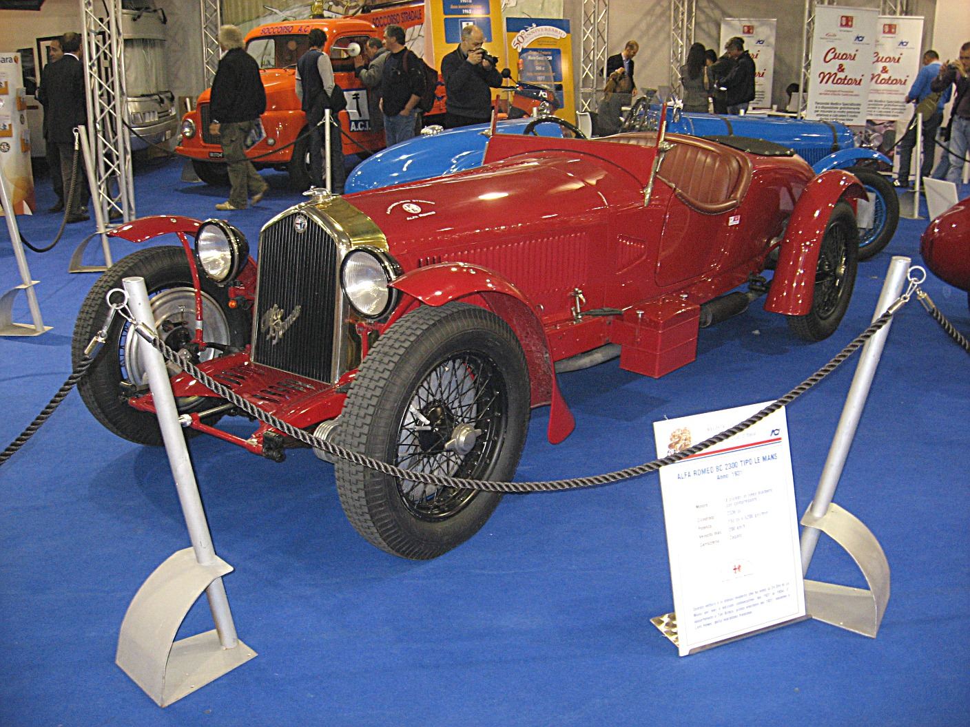 Subject: Alfa Romeo 8C 2300 Le Mans Date:October 26th, 2008 Event: Auto e Moto d'Epoca 2008 Place/Country: Padova, Italy I release all rights in the public domain.